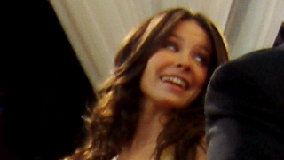 Evangeline Lilly at the 64th Golden Globe Awards